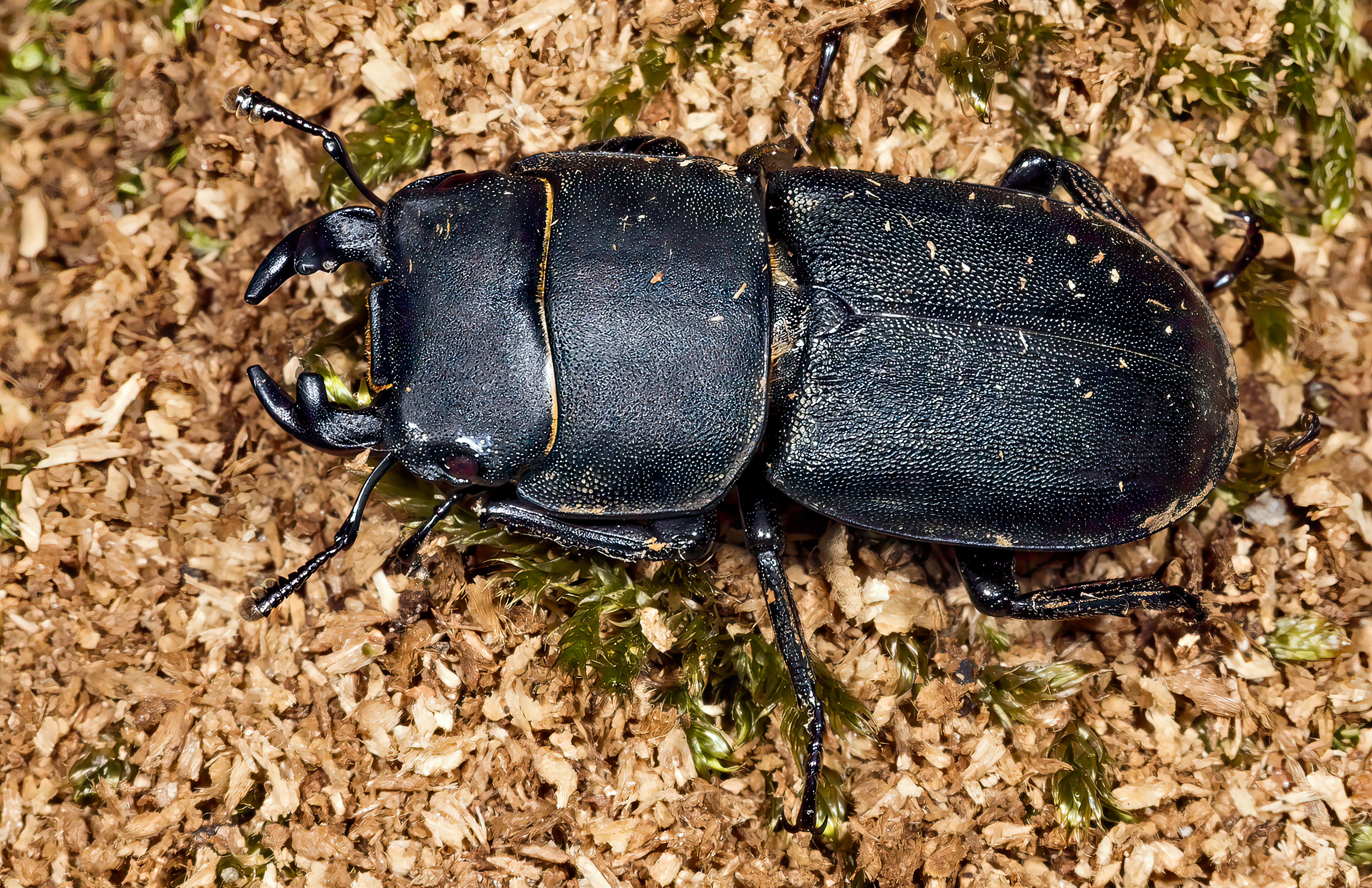 Lesser stag beetle.